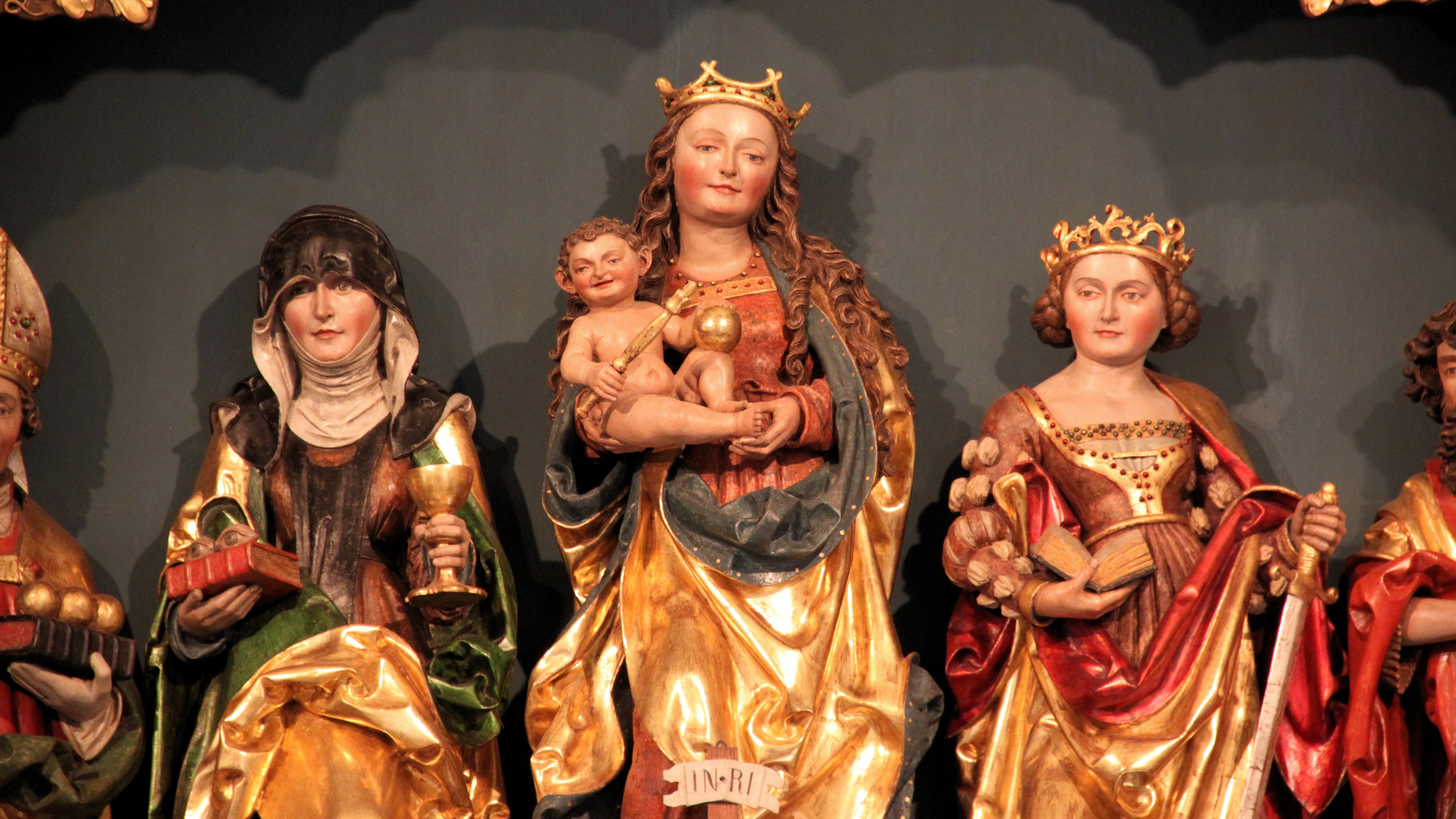 Weilen unter den Rinnen: High altar (detail) of Saint Nicholas Catholic church